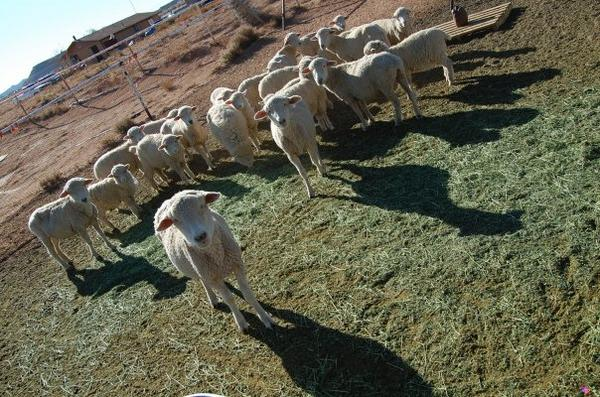 In the modern era, sheep remain an important aspect in Navajo Culture and Tradition.